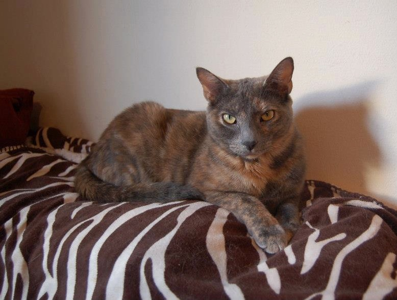 Tortoiseshell cat showing distinctive dilute coloring